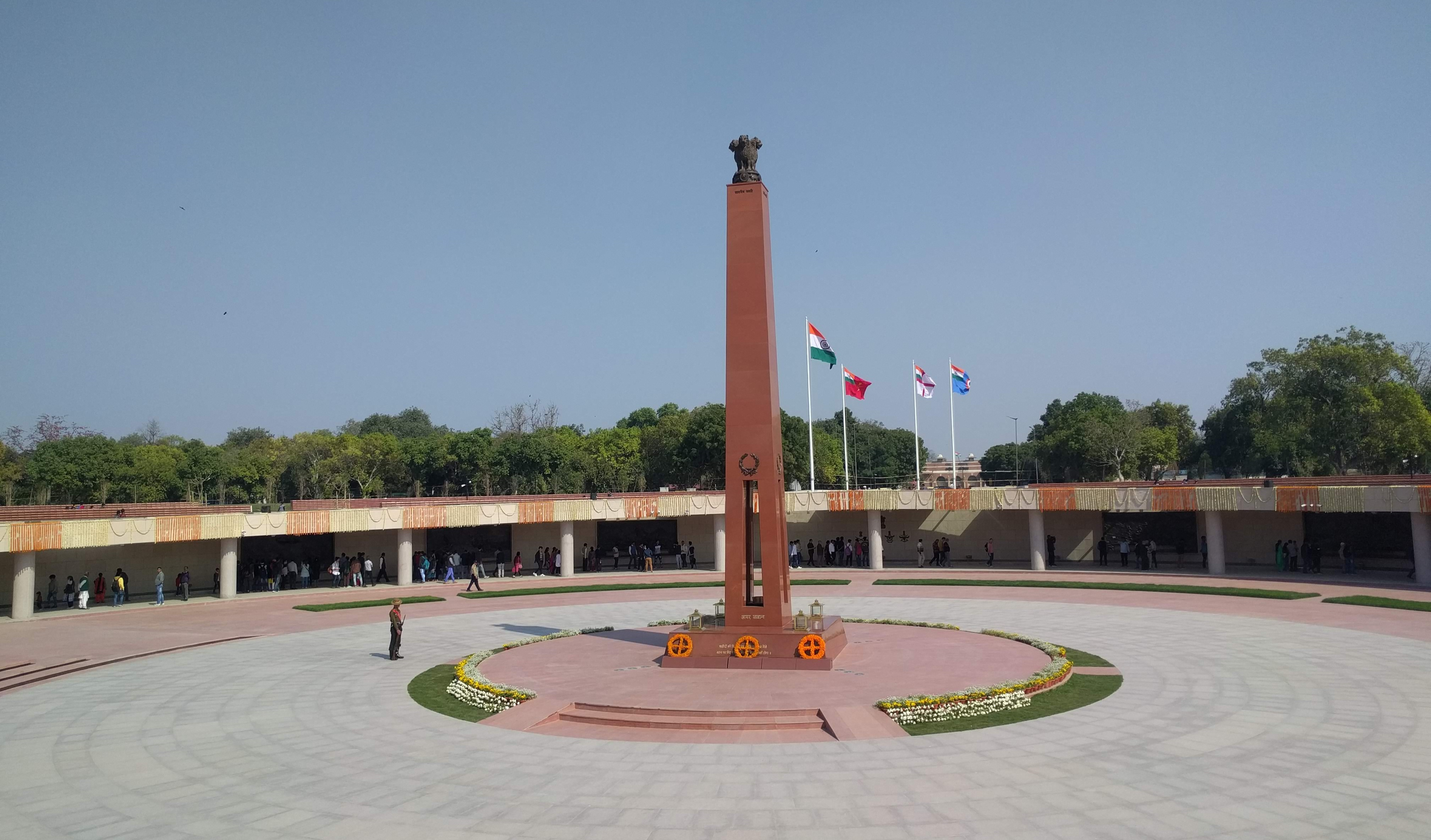 The innermost structure of the National War Memorial (India) complex called the Amar Chakra (Circle of Immortality). The other structures in the entire Memorial complex such as the Veerta Chakra (Circle of Bravery), the Tyag Chakra (Circle of Sacrifice), the Rakshak Chakra (Circle of Protection).